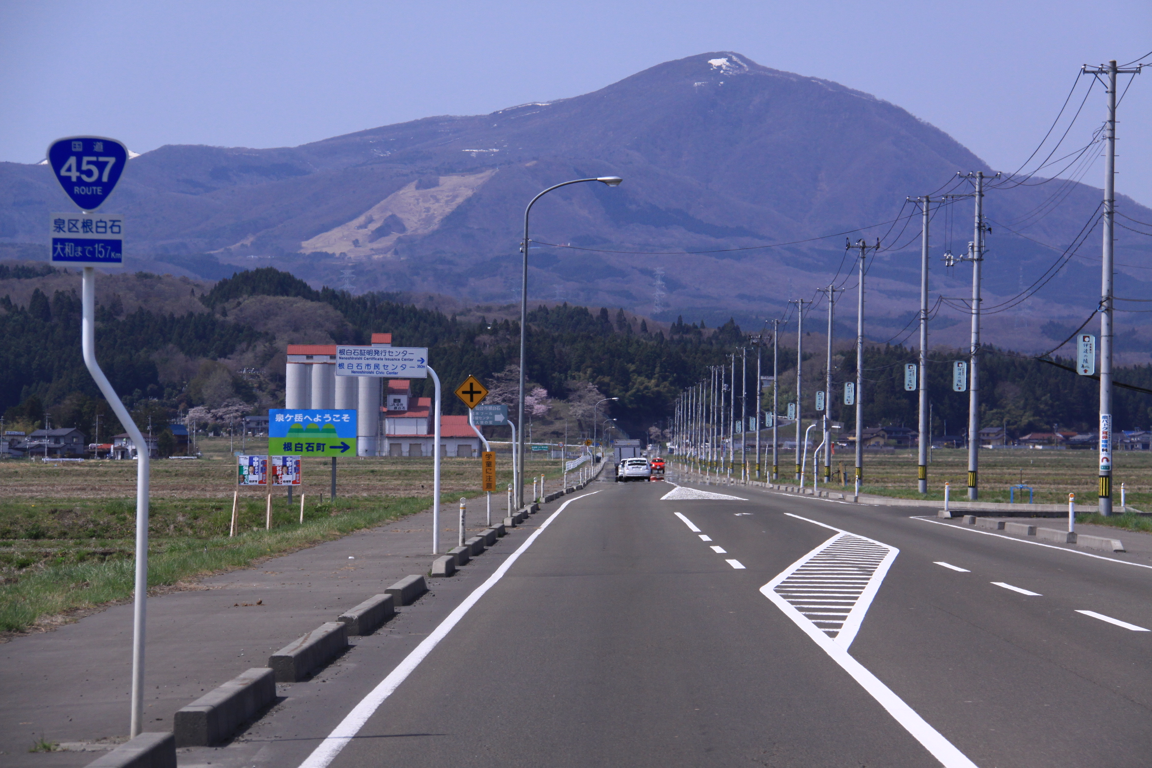 Mt.Izumigatake on R457